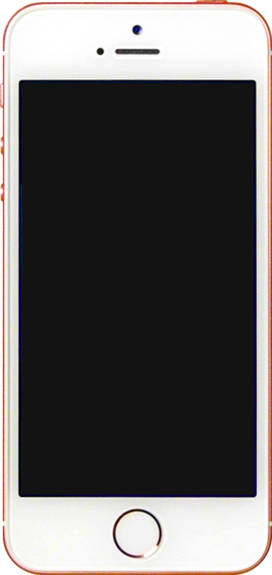 Photo of iPhone SE in rose gold.